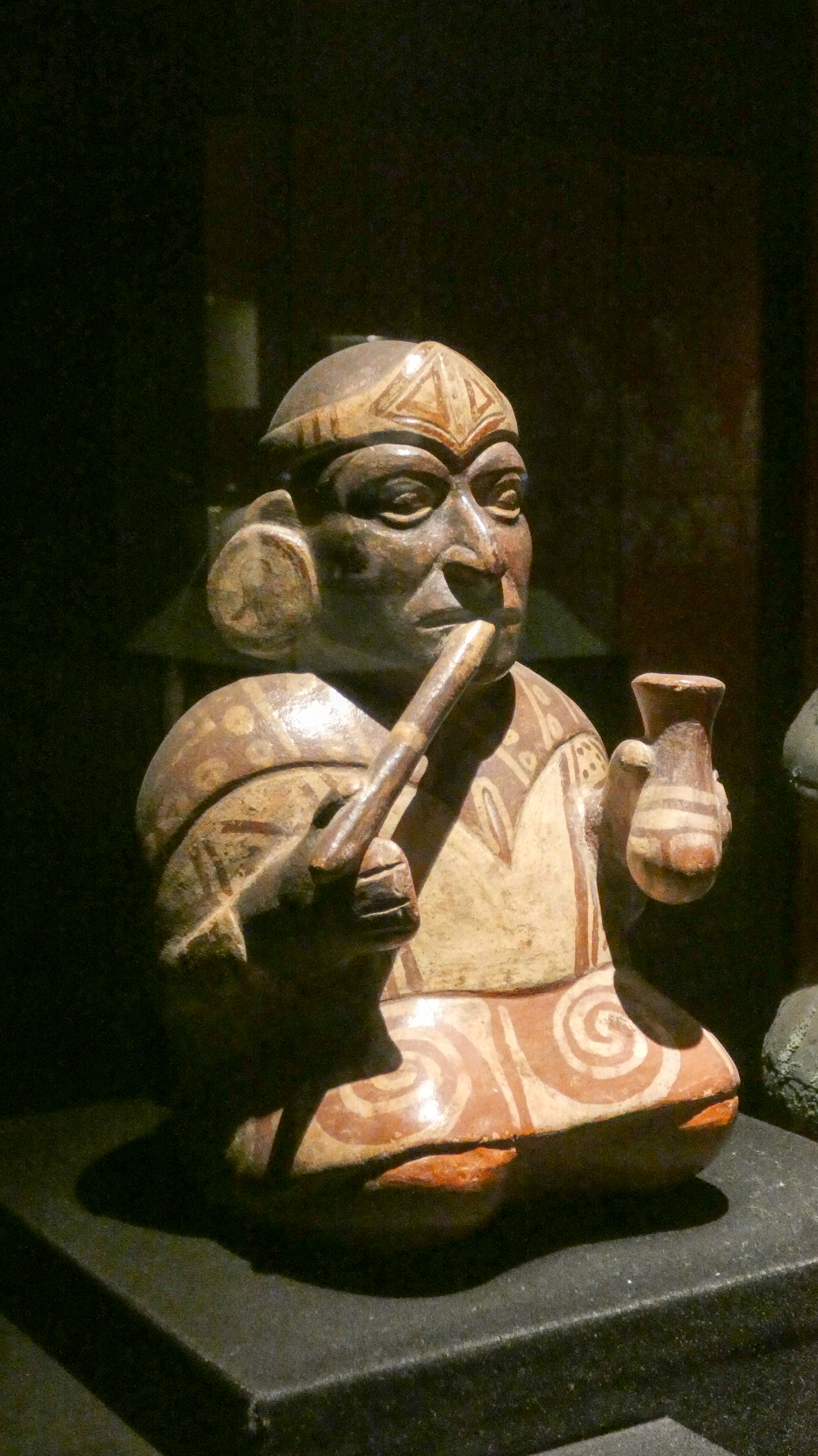 Pre-Columbian Ceramics - Rafael Larco Herrera Archaeological Museum - Lima - Peru